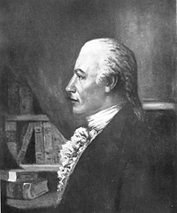 Portrait of George Bryan, President (Governor) of Pennsylvania in the 1770s.